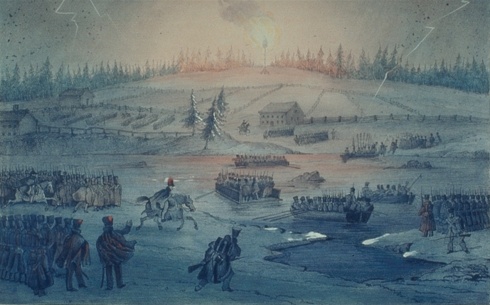 "Passage of the Richelieu by night". British troops crossing the Richelieu River at night in Lower Canada.